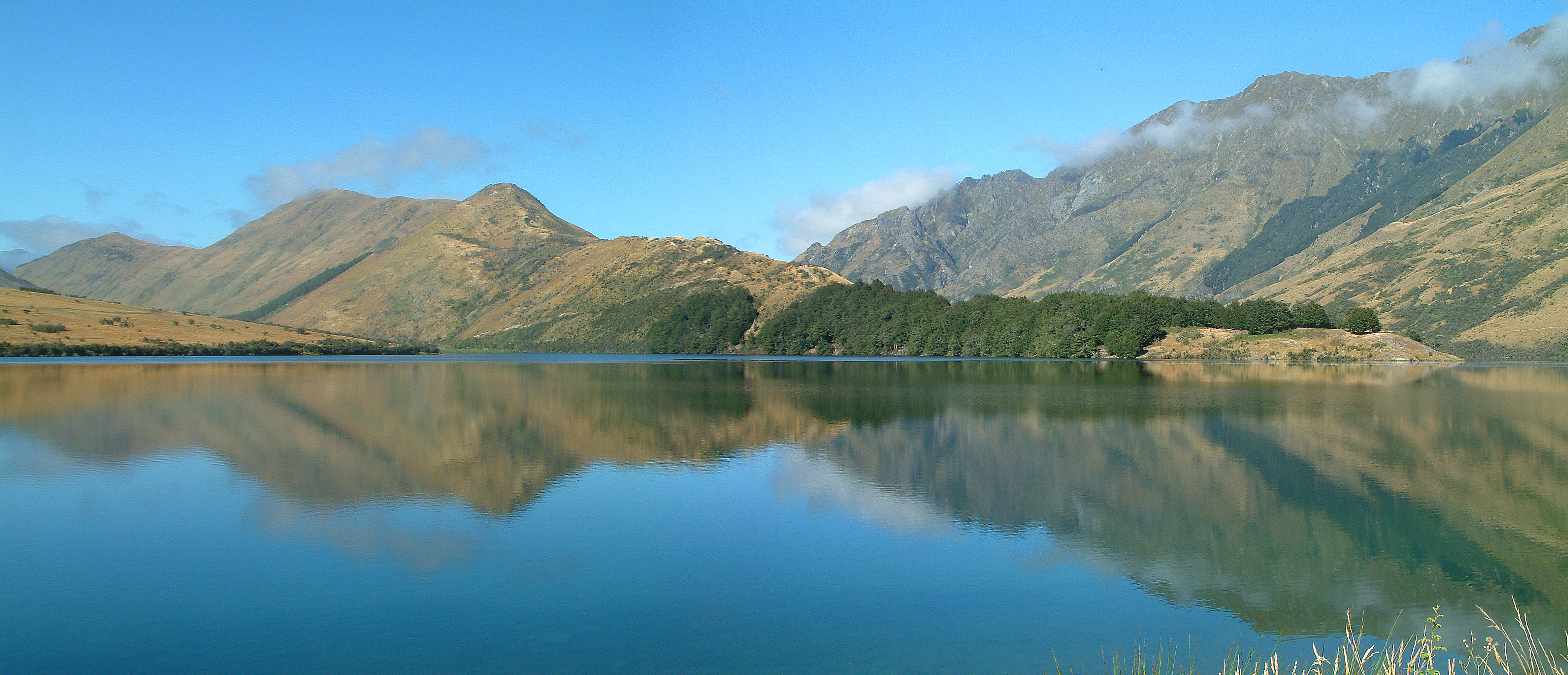 Moke Lake Reserve near Queenstown featuring Moke Lake, when viewed from above it looks like a horseshoe. The trees are mountain beech. This area has a DOC campsite.